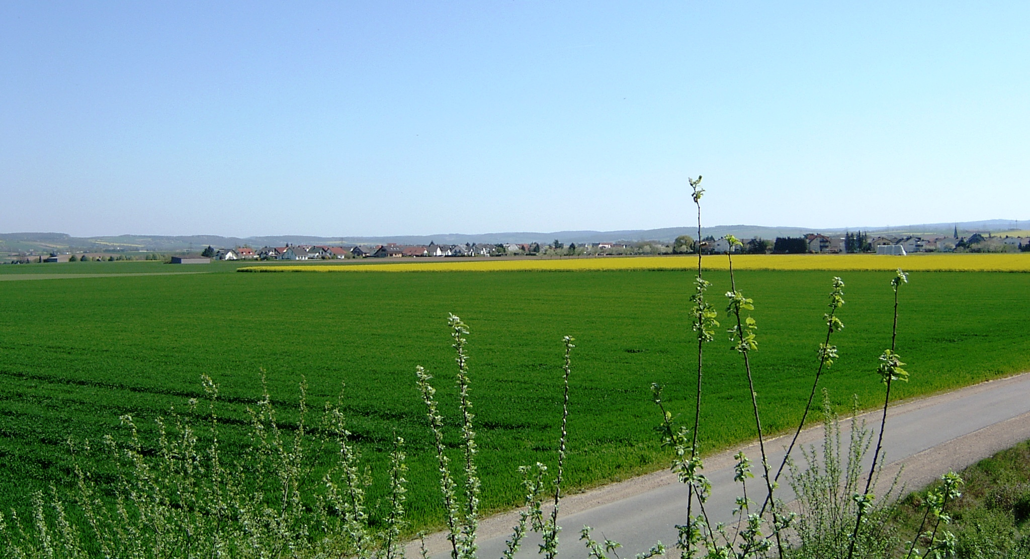 Lindenholzhausen, Germany from the north-west